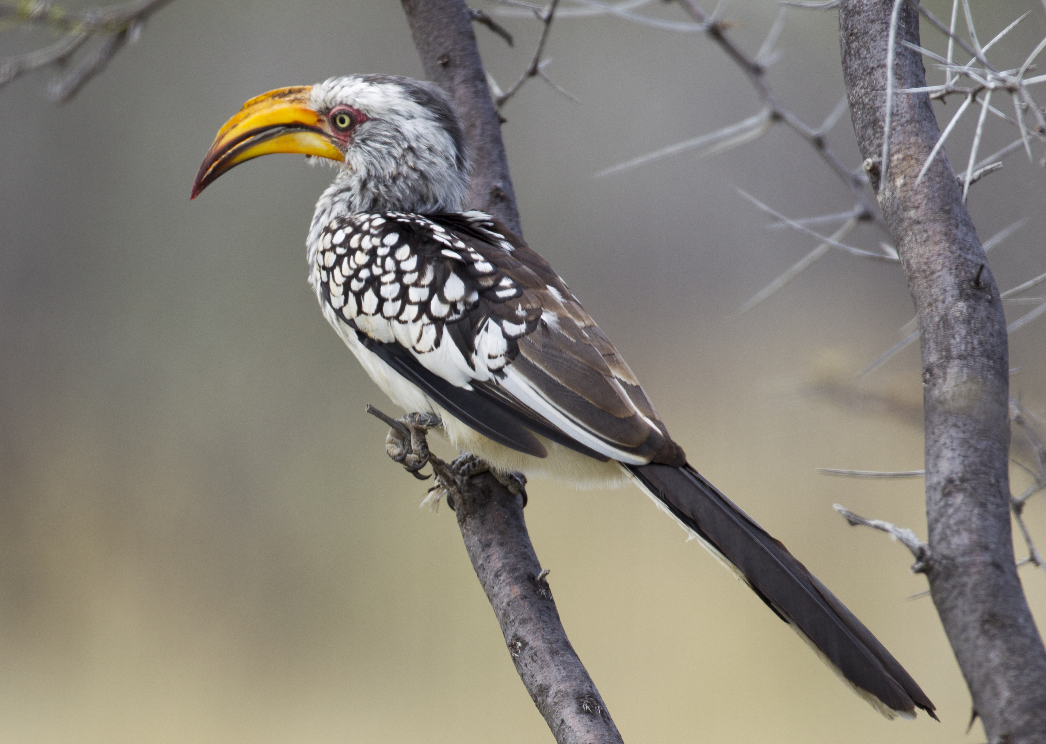 Southern yellow-billed hornbill in Etosha National Park